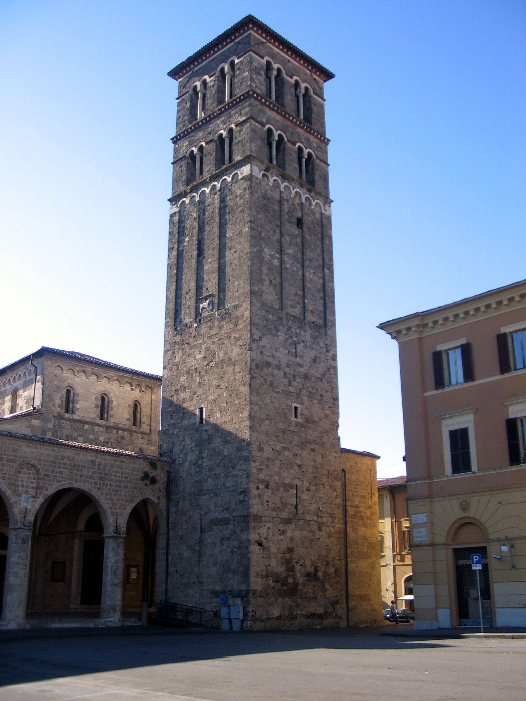 Cattedrale di Santa Maria - Tower - Rieti, Lazio, Italia